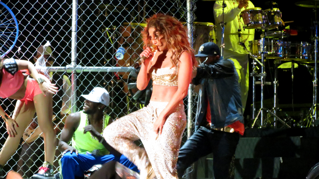 Jennifer Lopez live at the Pop Music Festival in São Paulo, Brazil.